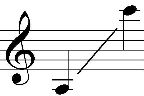 Range of a soprano voice